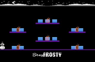 screenshot from the Atari 2600 game Stay Frosty by Darrell Spice Jr.